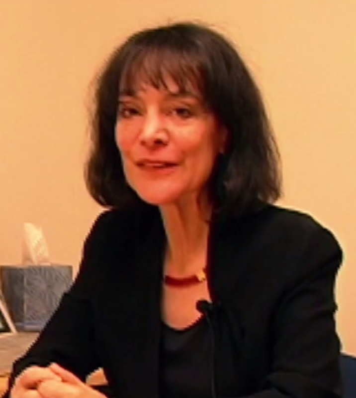 Stanford Psychology professor and author Carol Dweck speaking for the documentary Innovation: Where Creativity and Technology Meet